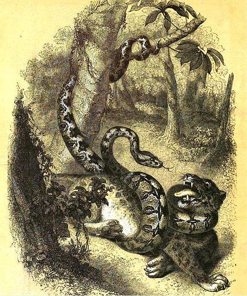 A boa constrictor attacking a jaguar